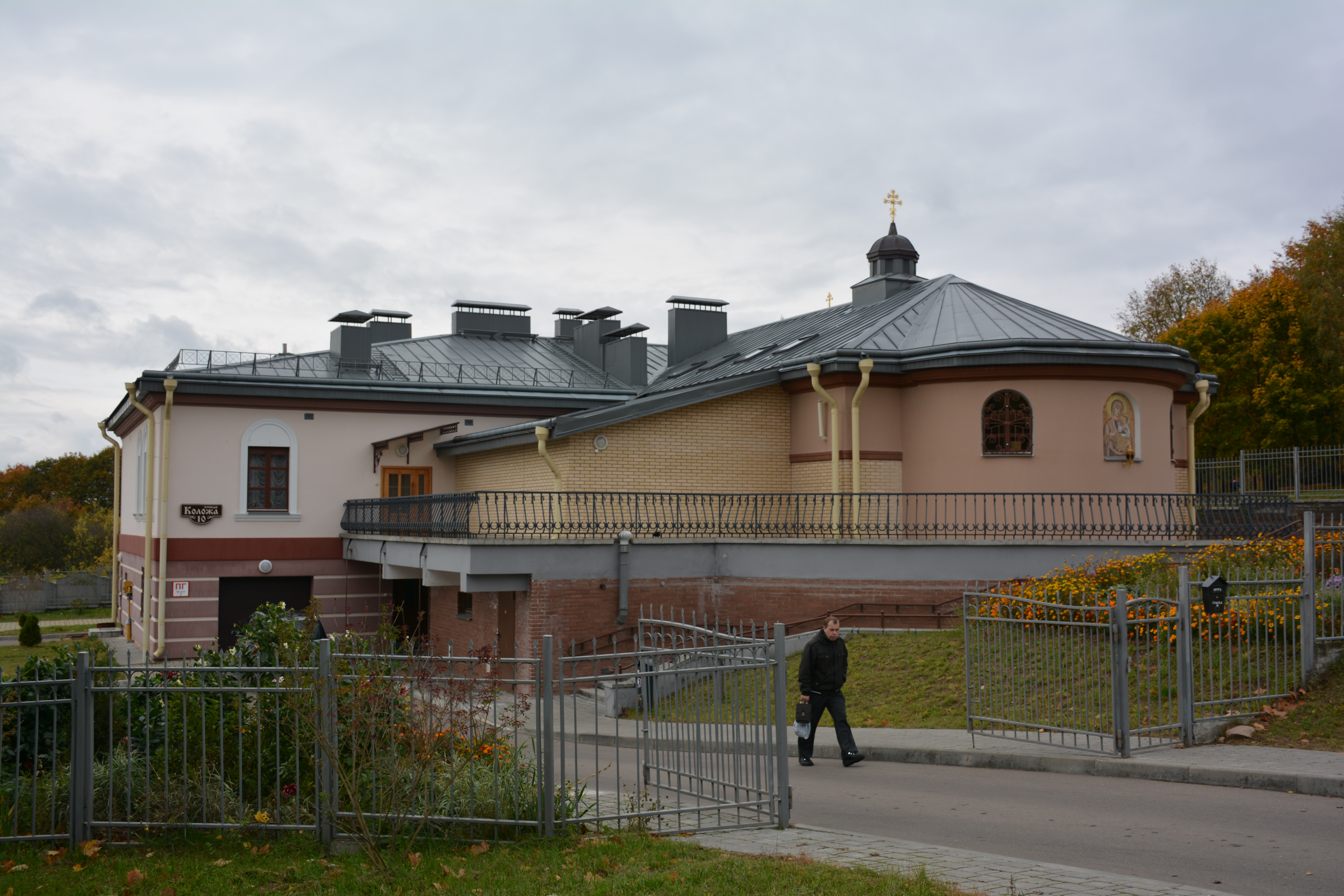 Parochial complex of Church of Saints Boris and Gleb in Grodno, Belarus